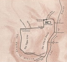 Map of Jerusalem at the time of Nehemiah